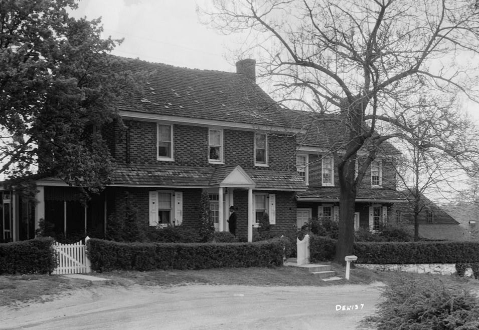 John England House, 81 Red Mill Road, Newark vicinity (New Castle County, Delaware) cropped This file comes from the Historic American Buildings Survey (HABS), Historic American Engineering Record (HAER) or Historic American Landscapes Survey (HALS). These are programs of the National Park Service established for the purpose of documenting historic places. Records consist of measured drawings, archival photographs, and written reports. When reusing please credit: Library of Congress, Prints & Photographs Division, DEL,2-NEWARK.V,3-1 This tag does not indicate the copyright status of the attached work. A normal copyright tag is still required. See Commons:Licensing for more information. This work is in the public domain in the United States because it is a work prepared by an officer or employee of the United States Government as part of that person’s official duties under the terms of Title 17, Chapter 1, Section 105 of the US Code. See Copyright. Note: This only applies to original works of the Federal Government and not to the work of any individual U.S. state, territory, commonwealth, county, municipality, or any other subdivision. This template also does not apply to postage stamp designs published by the United States Postal Service since 1978. (See § 313.6(C)(1) of Compendium of U.S. Copyright Office Practices). It also does not apply to certain US coins; see The US Mint Terms of Use. This file has been identified as being free of known restrictions under copyright law, including all related and neighboring rights. Object location39° 41′ 32″ N, 75° 42′ 29″ W